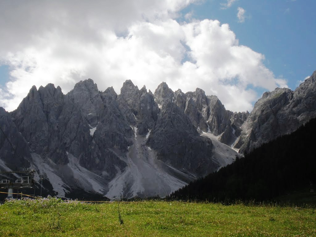 Haunold, a mountain group in the Dolomites in South Tyrol, Italy.